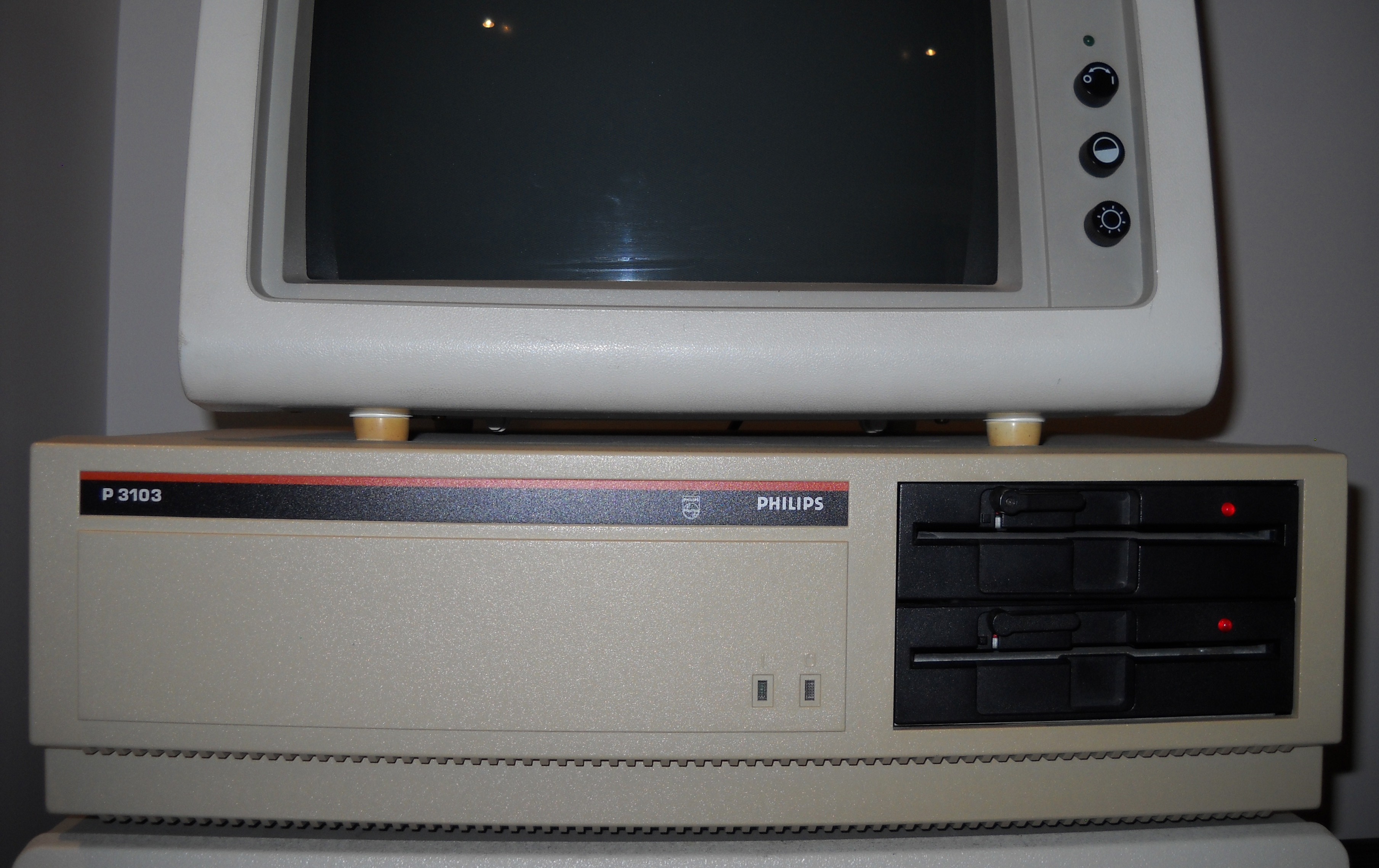 Philips P 3103 Desktop Computer